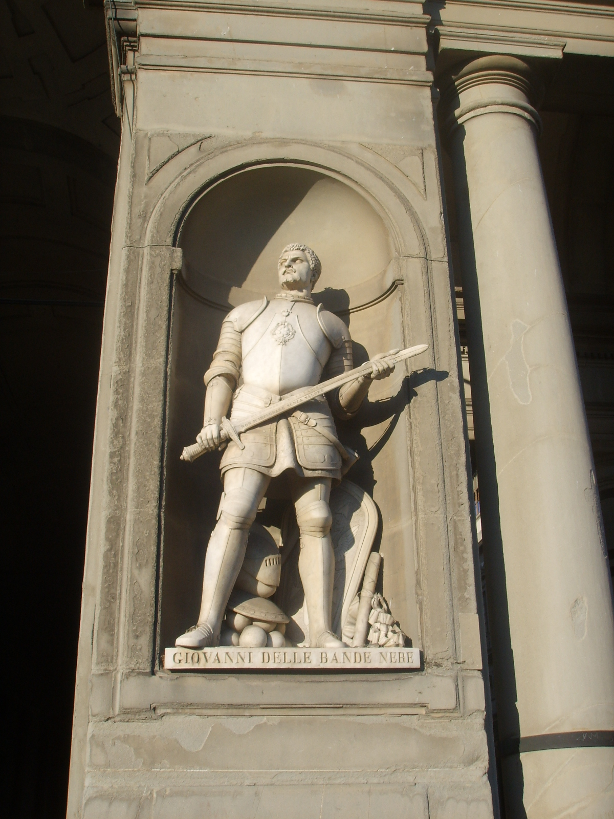 Giovanni dalle Bande Nere. Statues in the Uffizi outside Gallery Statues in the Uffizi outside Gallery Famous florentine. See title description